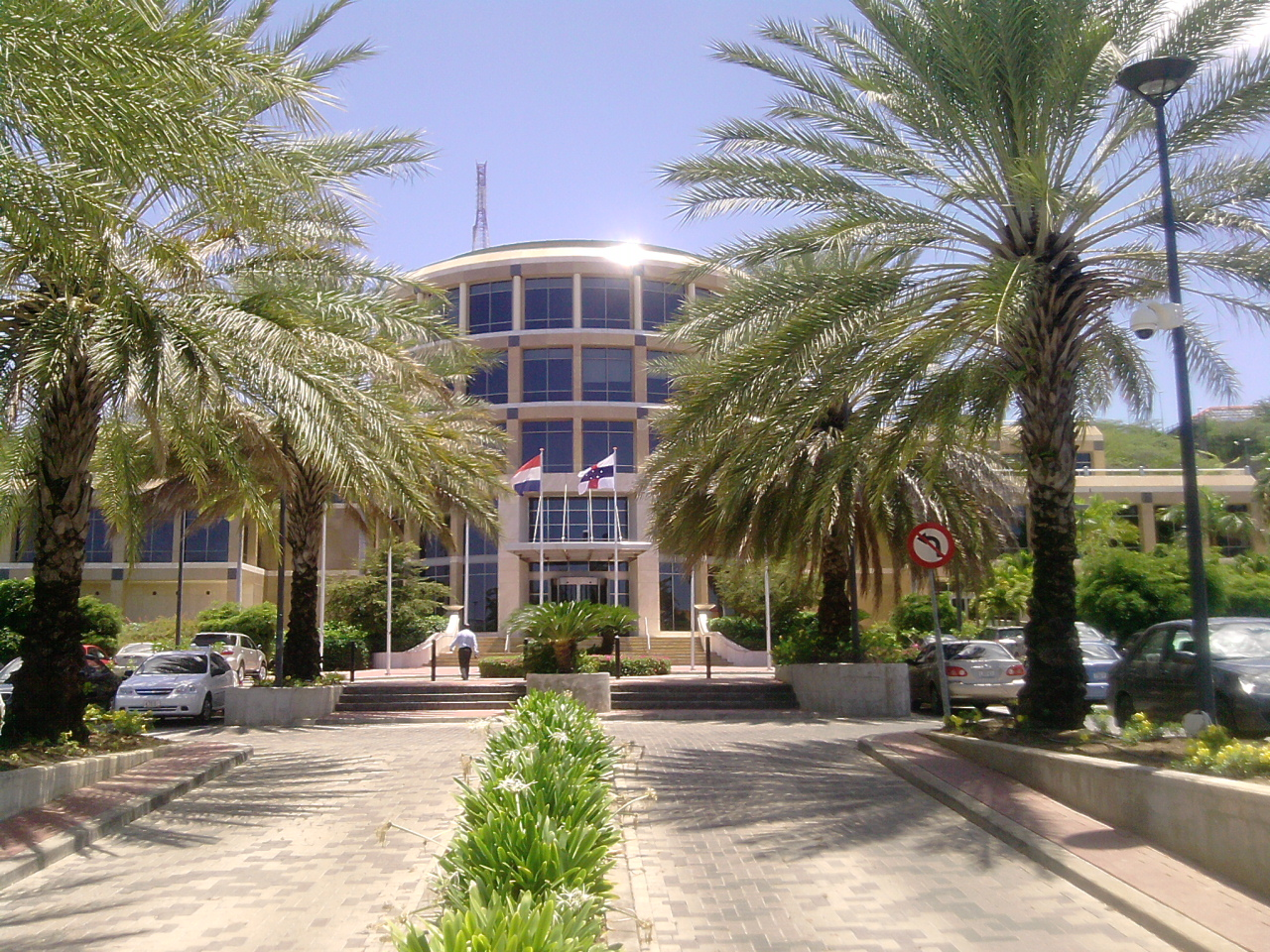 The exterior of the Central Bank's headquarters in 2010.